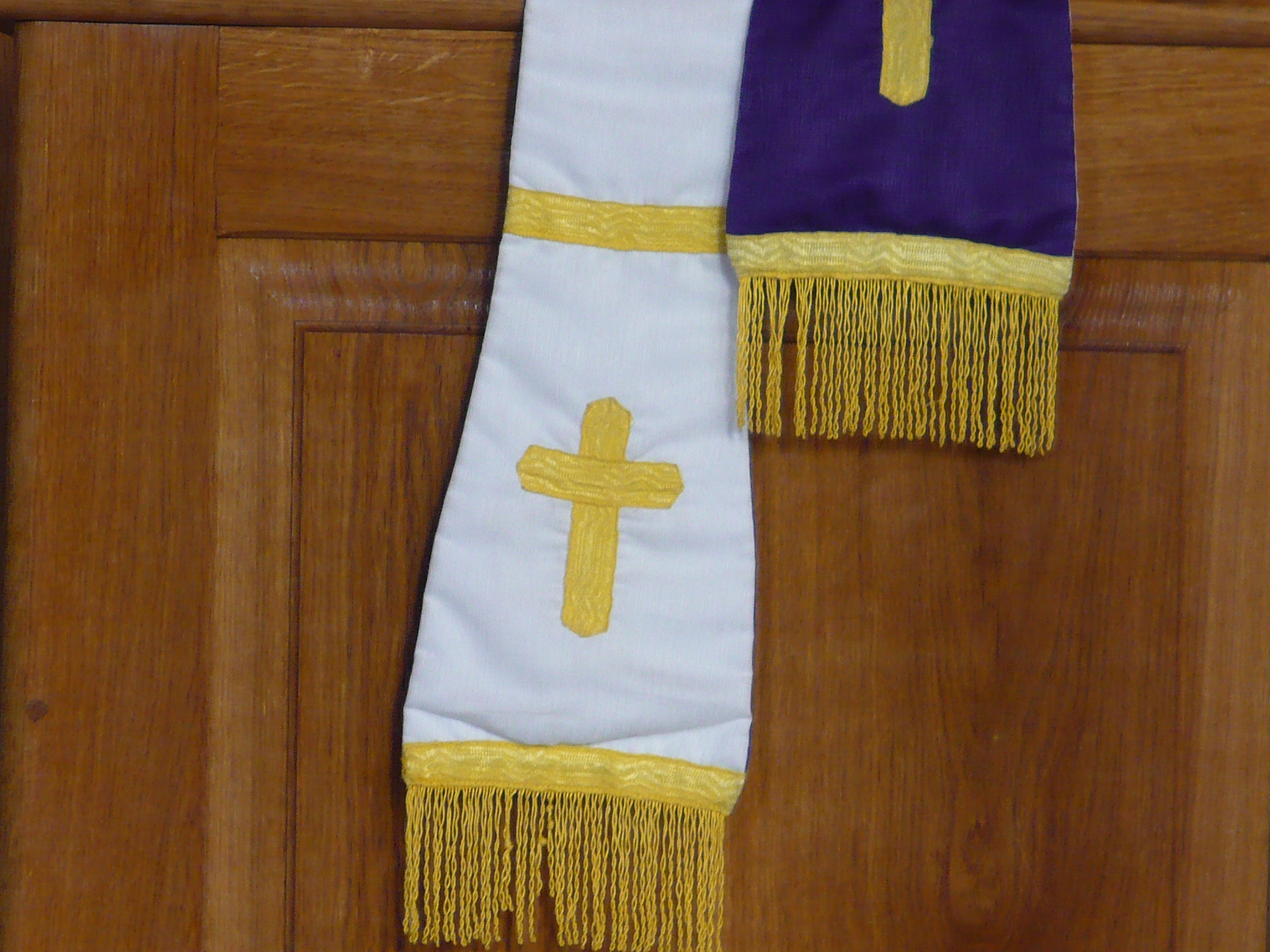 Stole